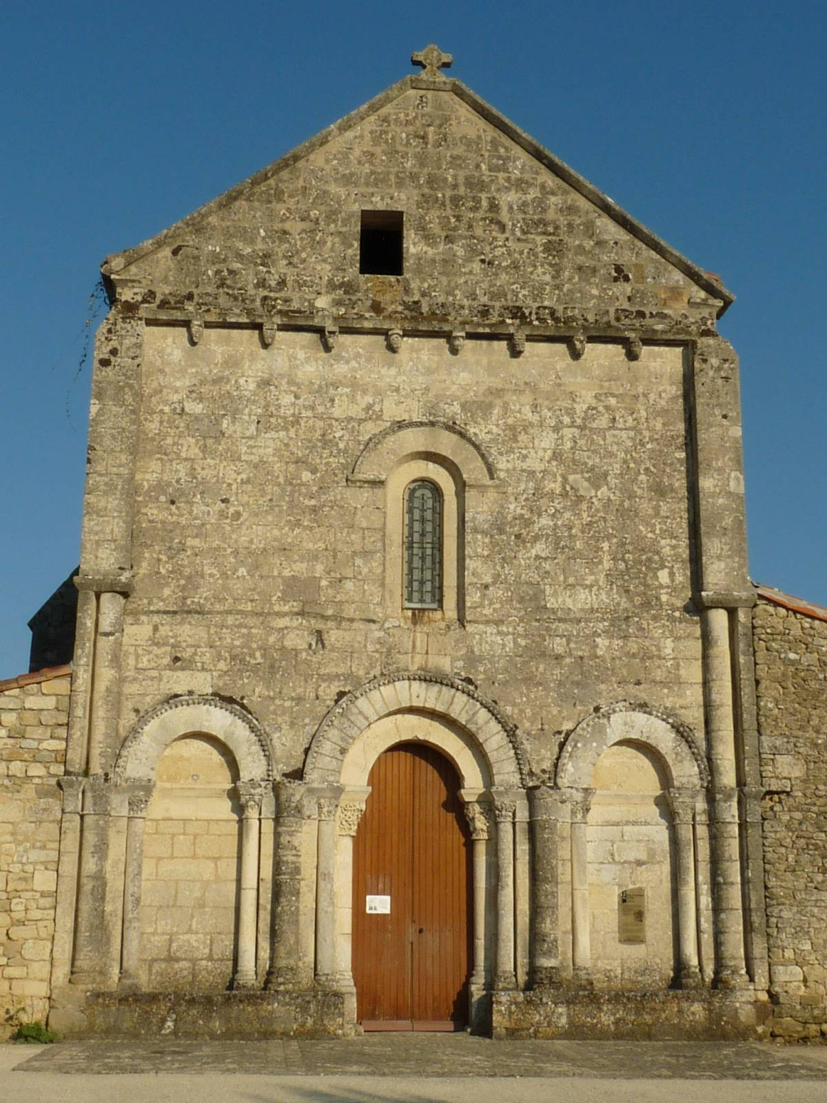 church of Fléac, Charente, SW France